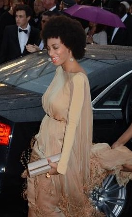 Solange Knowles at the Cannes Film Festival